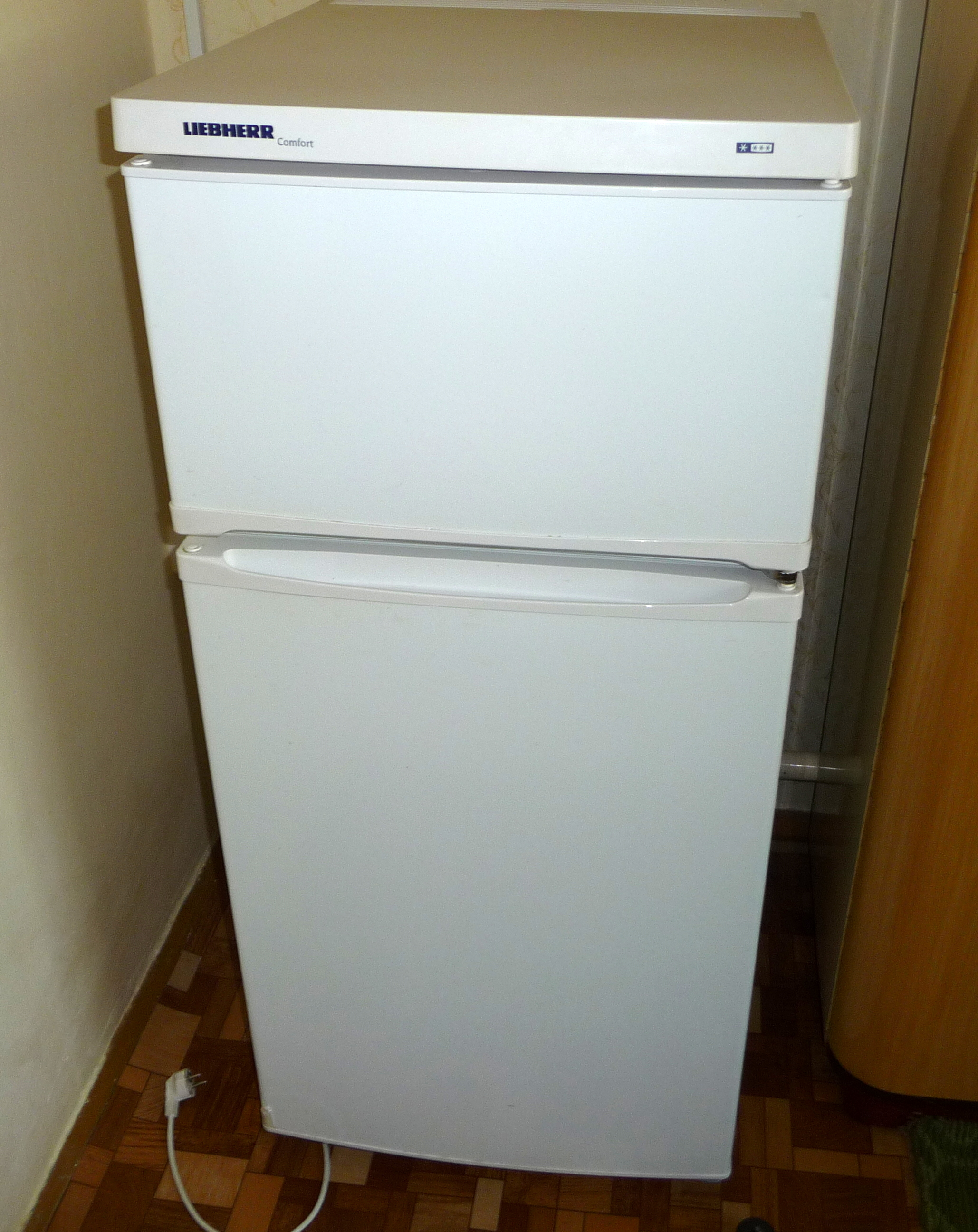 Refrigerator Liebherr Comfort